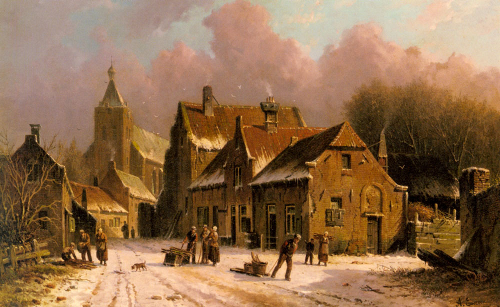 Adrianus Eversen's art